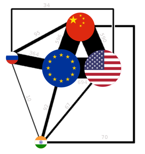 Economic ties between the US, EU, China, Russia and India (as of 2014). Area of the circle is proportional to the nominal GDP of the country. Thickness of the connection is proportional to the bilateral trade volume. Sources of the data: [1] [2] [3] [4] [5] [6] [7] [8] [9] [10] ↑ ↑ ↑ ↑ ↑ ↑ ↑ ↑ ↑ ↑